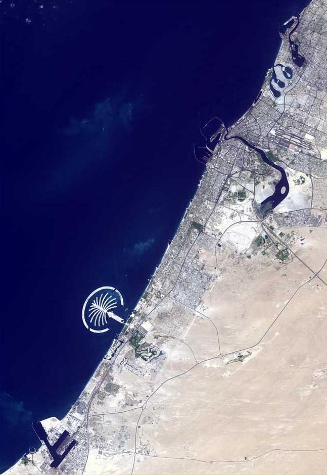 The raw satellite imagery shown in these images was obtain from NASA and/or the US Geological Survey. Post-processing and production by